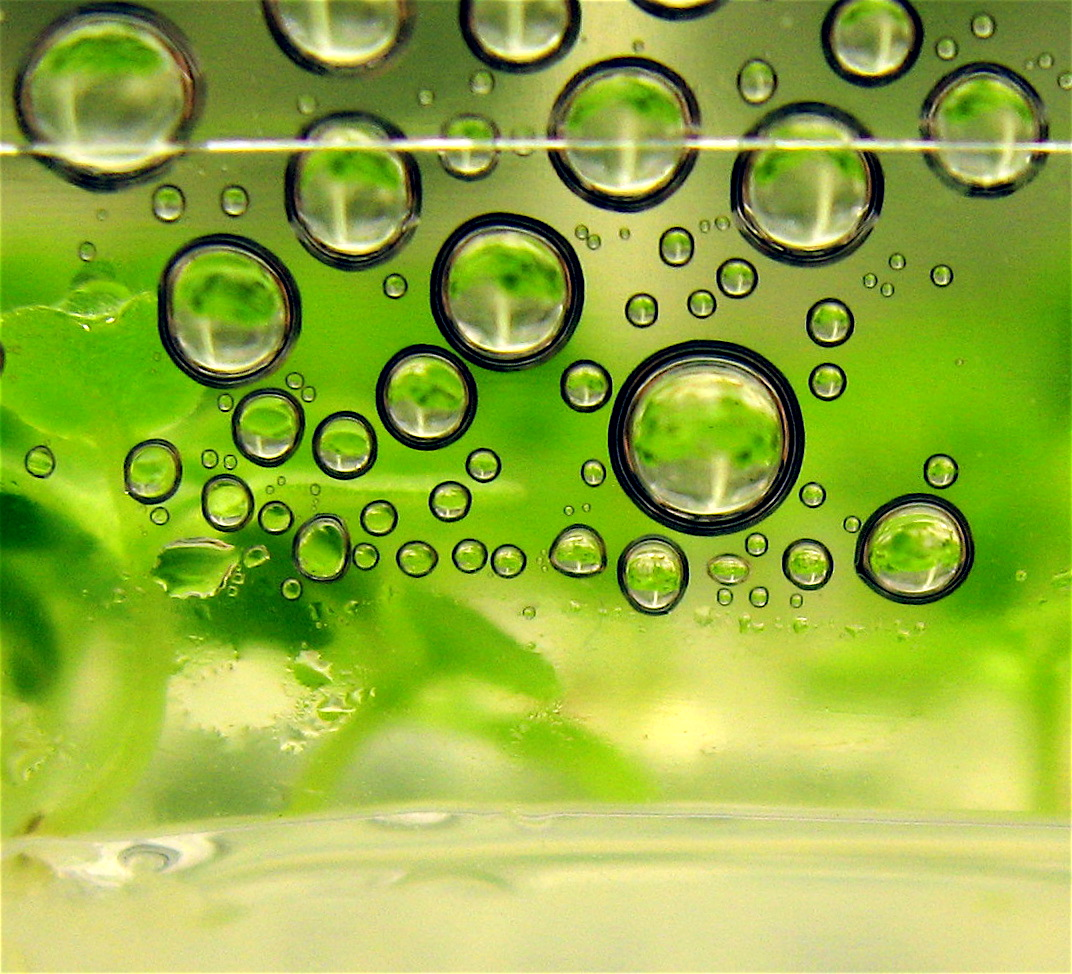 Biofuel picture from La Jolla. La Jolla is biotech mecca... The 92121 zip code, just North of San Diego, has the most biotech companies, 2.8x that of second place (South San Francisco).Biofuels